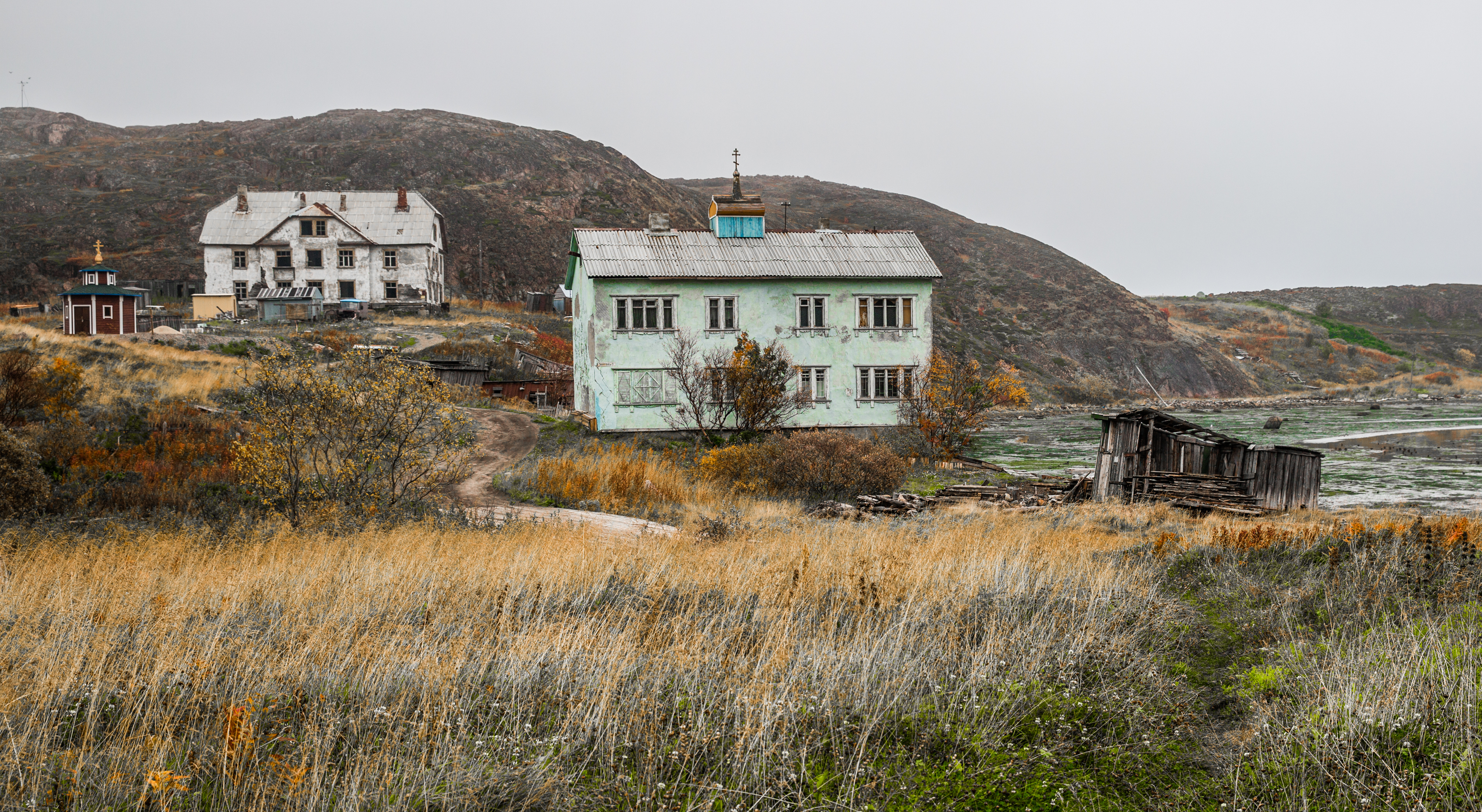 Teriberka on the Kola Peninsula